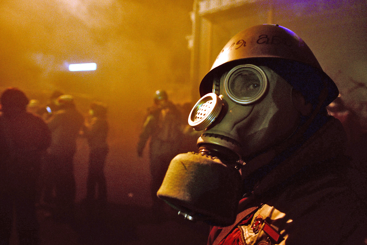 A protester wearing breathing gas mask. Clashes between protesters and interior troops persist. Euromaidan Protests